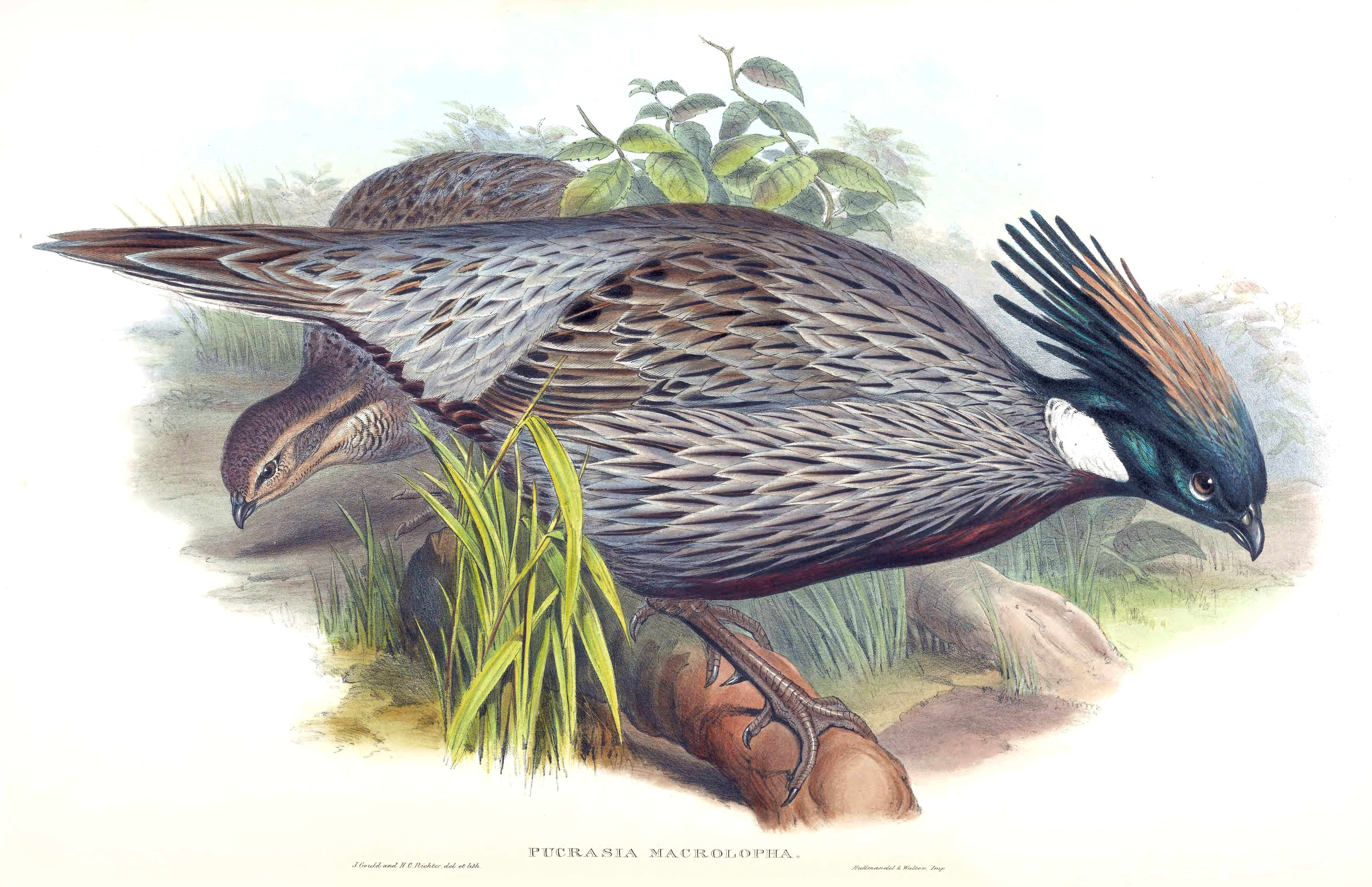 Pucrasia macrolopha (Koklass Pheasant)